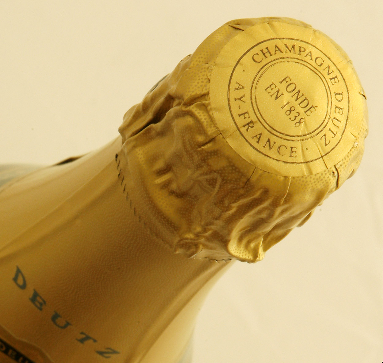 Image of a Champagne Deutz capseal.